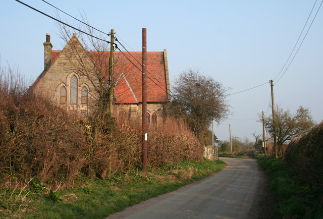 Former chapel, Norbury Marked as a chapel on the 1940s map, this stone-faced building on Norbury Town Lane in the hamlet of Norbury is now residential. The plethora of unsightly telegraph poles of assorted vintages is common in this area